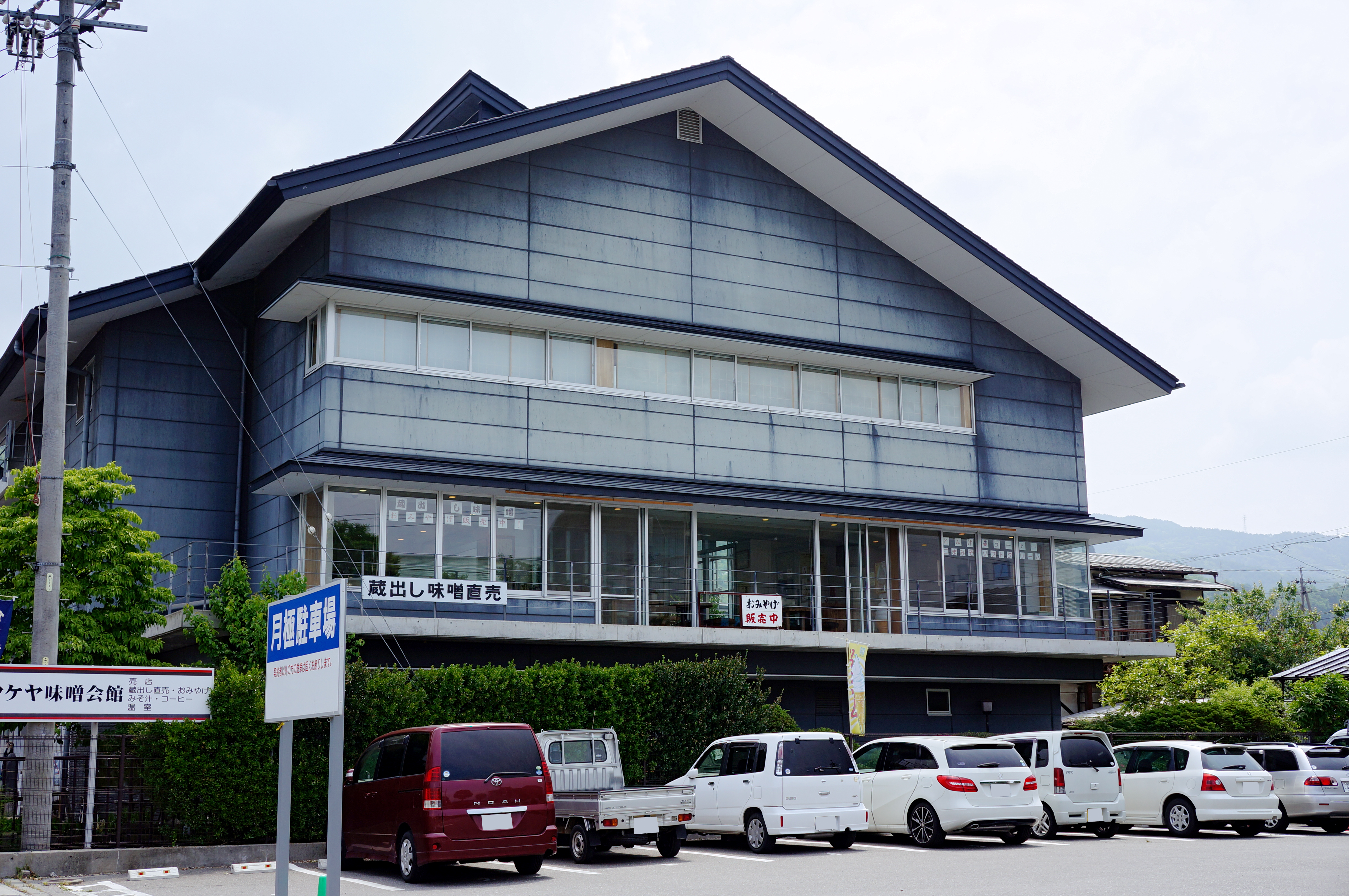 TAKEYA MISO Kaikan museum in Suwa, Nagano prefecture, Japan.